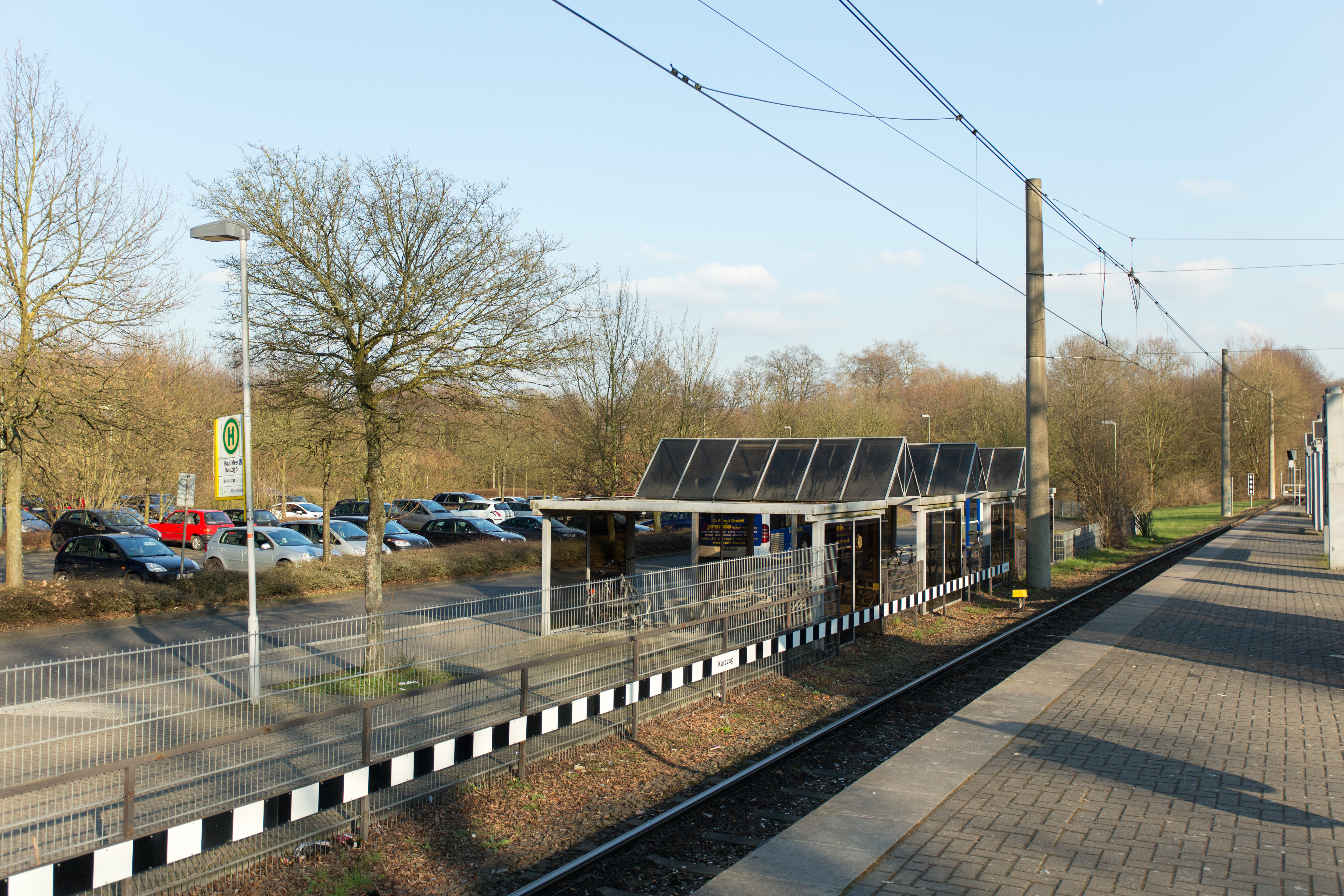 Stadtbahnhaltestelle Haus Meer Blickrichtung Düsseldorf